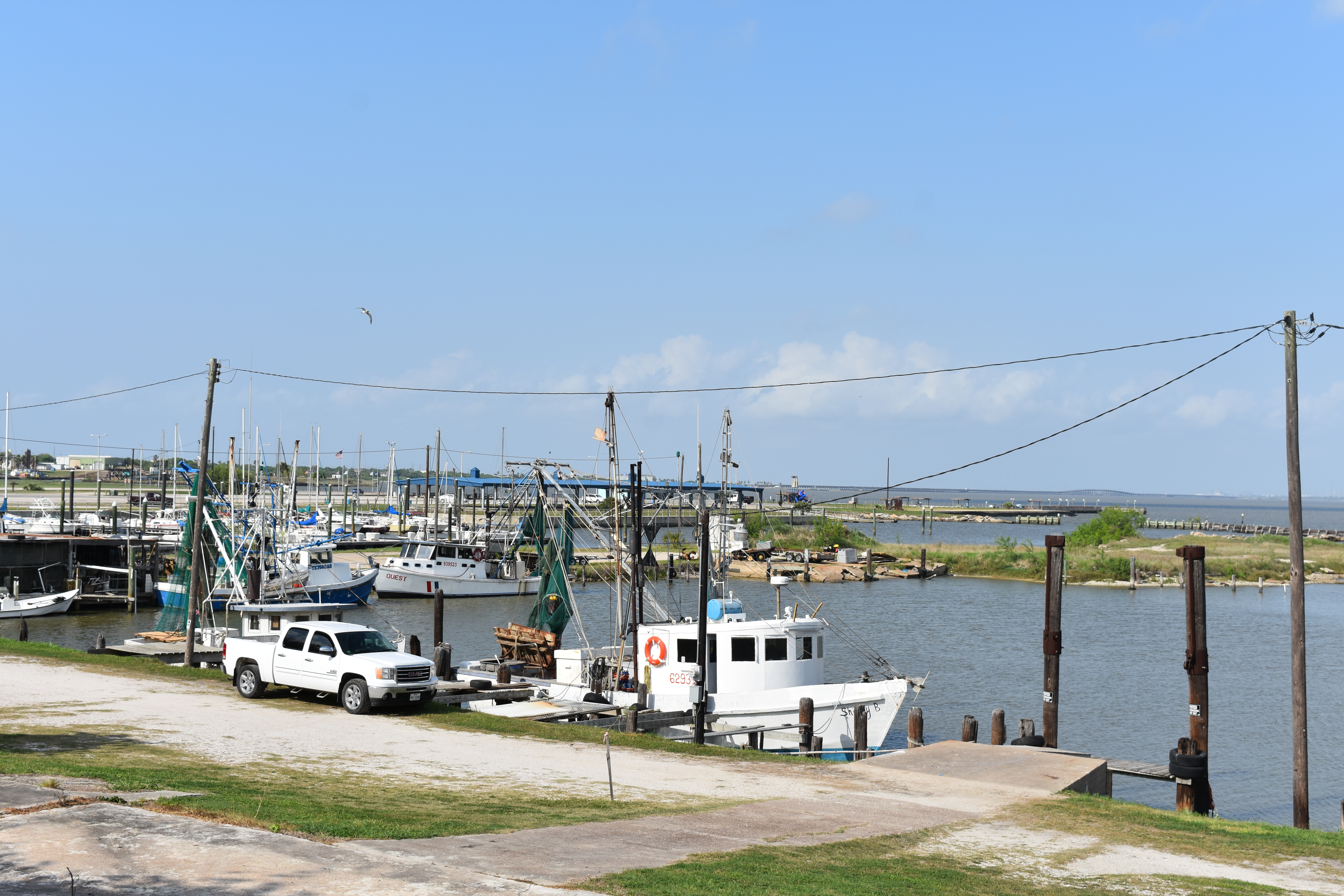 Lavaca Bay coast, Port Lavaca, Texas, USA